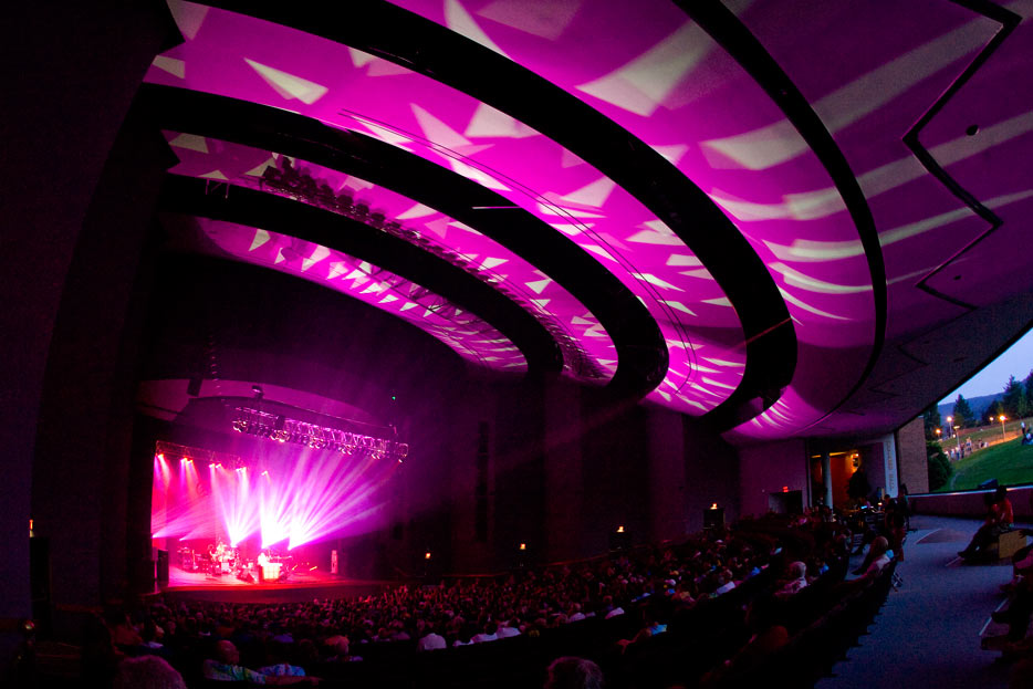 Anderson Center at the Binghamton University during a live music performance with mostly full seats